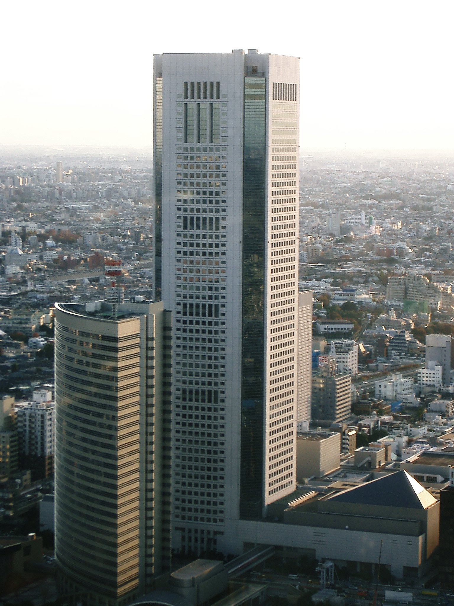 Tokyo Opera City (東京オペラシティ) seen from Tokyo City Hall (東京都庁舎)